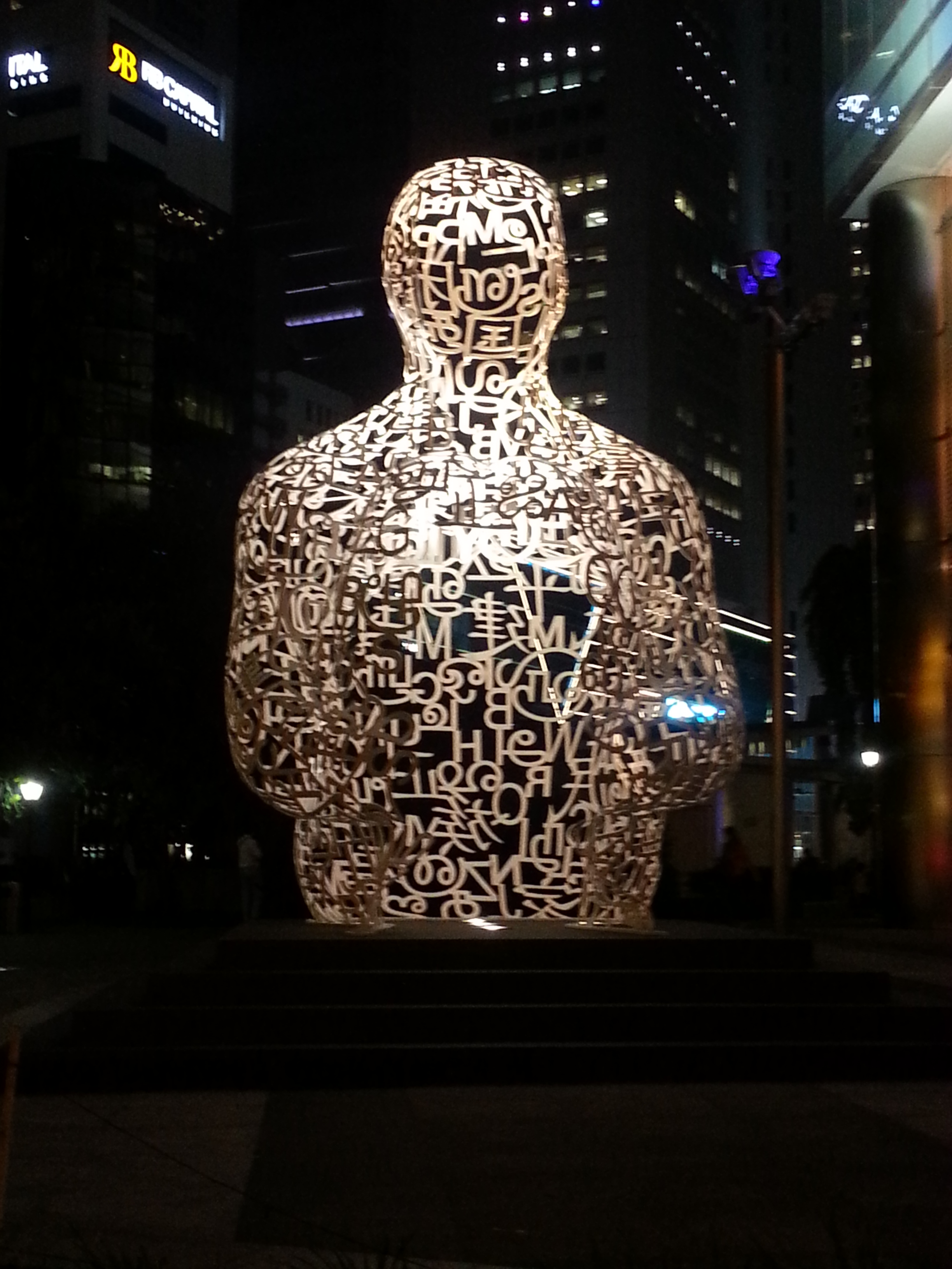 Singapore Soul (2011) by Jaume Plensa at the Ocean Financial Centre, Singapore. The sculpture is composed of Chinese, English, Malay and Tamil characters.